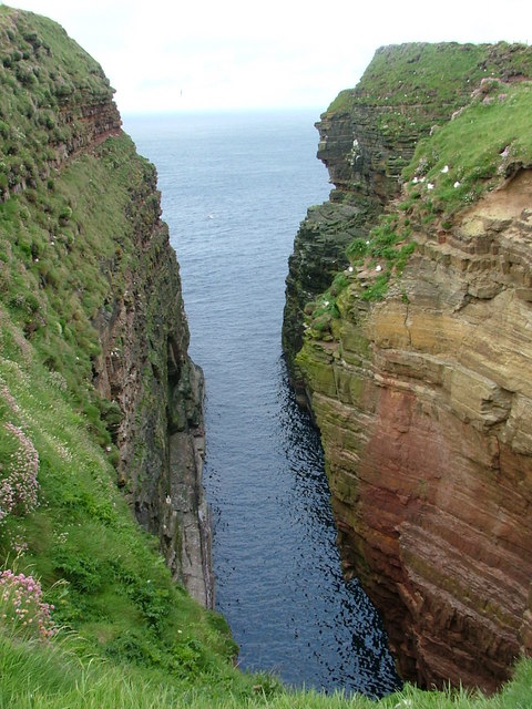 Geo of Sclaites Inlet just south of Duncansby Head